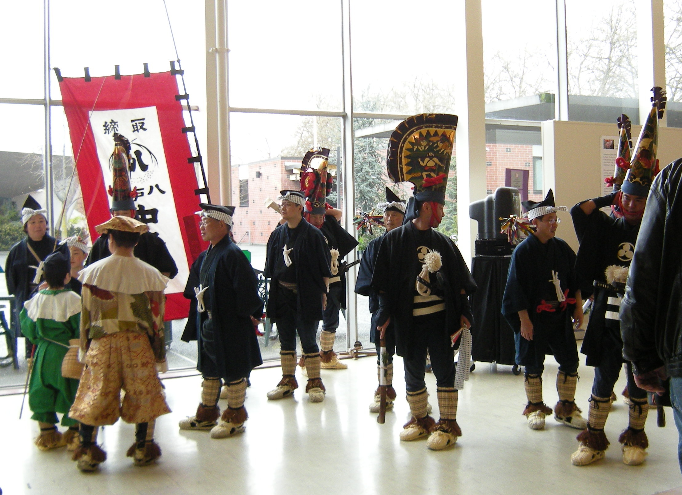 Hachinohe Enburi at Seattle Center, Seattle, Washington as part of the 2008 Cherry Blossom Festival.